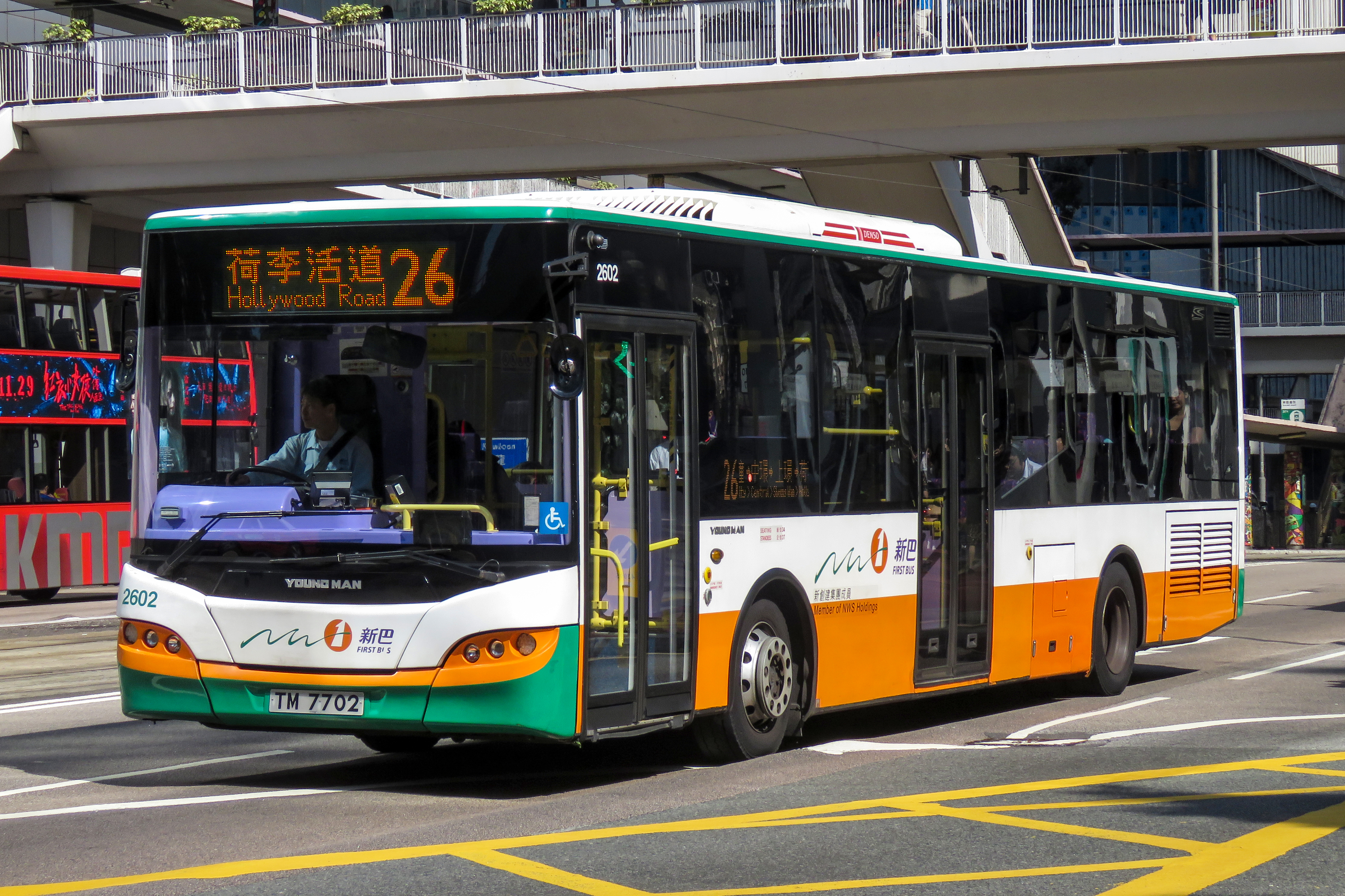 Familiar fellow - JNP6120GR to Hollywood Rd.